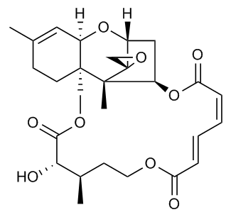 This is the chemical structure of verrucarin A.